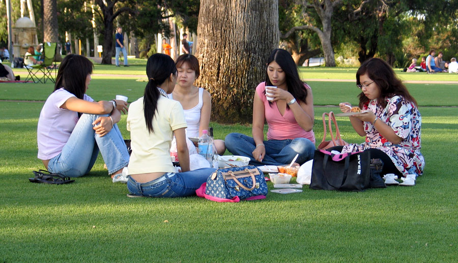 East Asian friends in King's Park, Perth on Christmas 2006